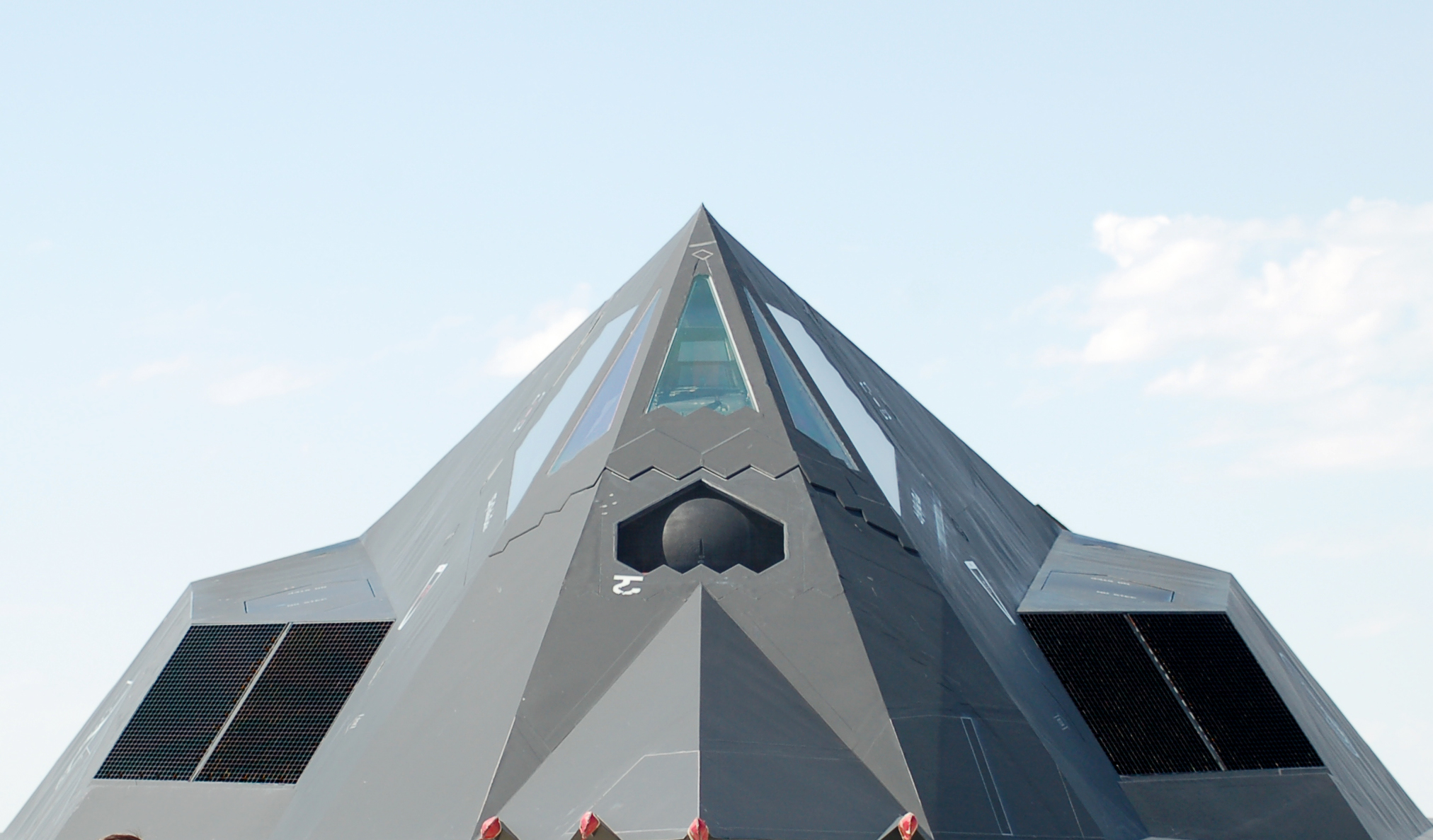 A detail of an F-117 Nighthawk Stealth Fighter's nose and cockpit. This is a view facing the aircraft. Taken during an airshow at Kirtland Air Force Base, Albuquerque, New Mexico.